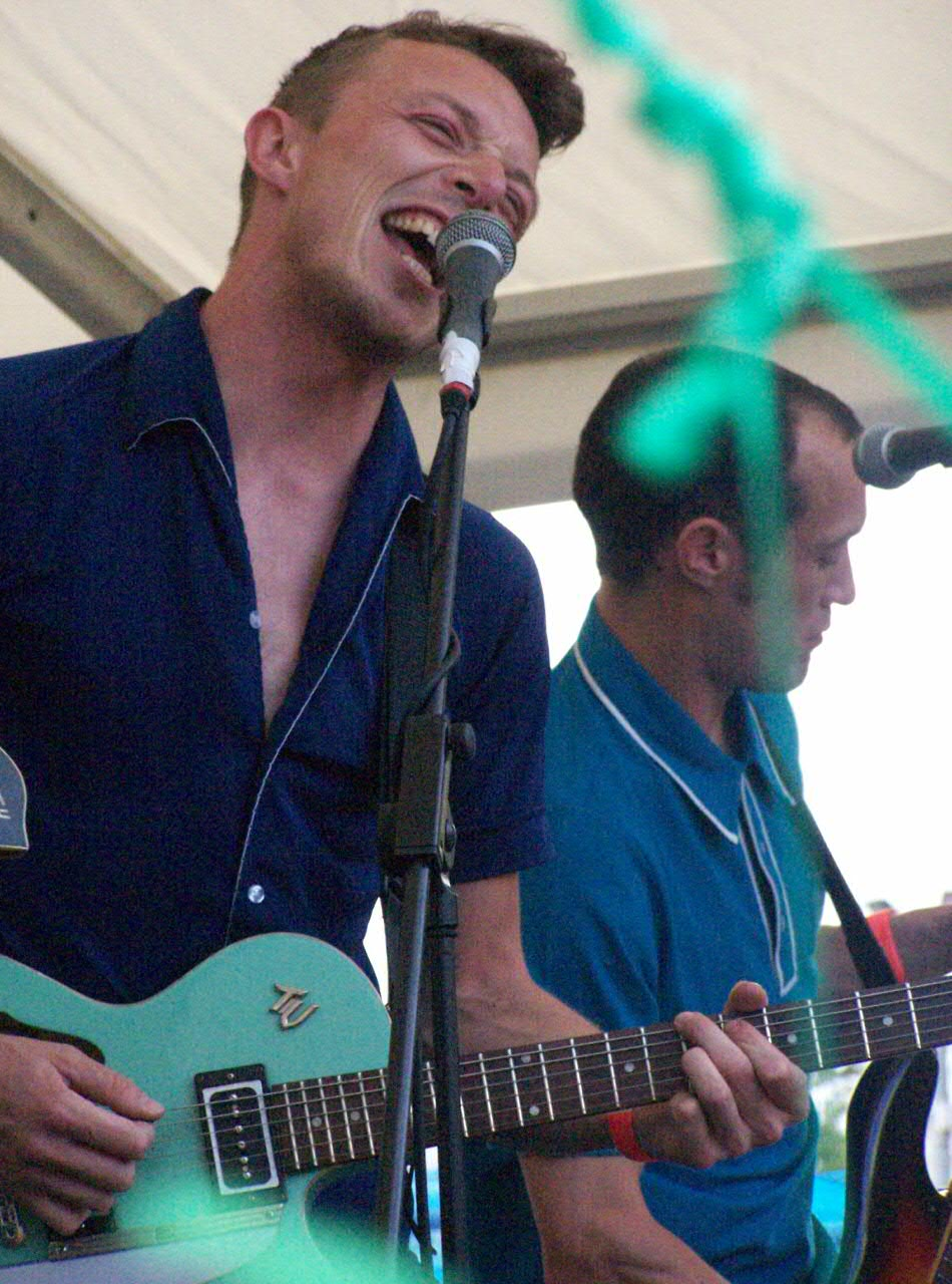 Uncle John & Whitelock @ HYGOMP06 Hey You Get Off My Pavement 2006